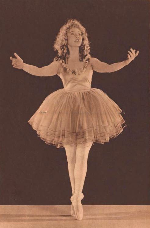 Actress Betty Compson on pages 16 and 17 of the April 15, 1922 Movie Weekly, a still from the American melodrama film The Green Temptation (1922).